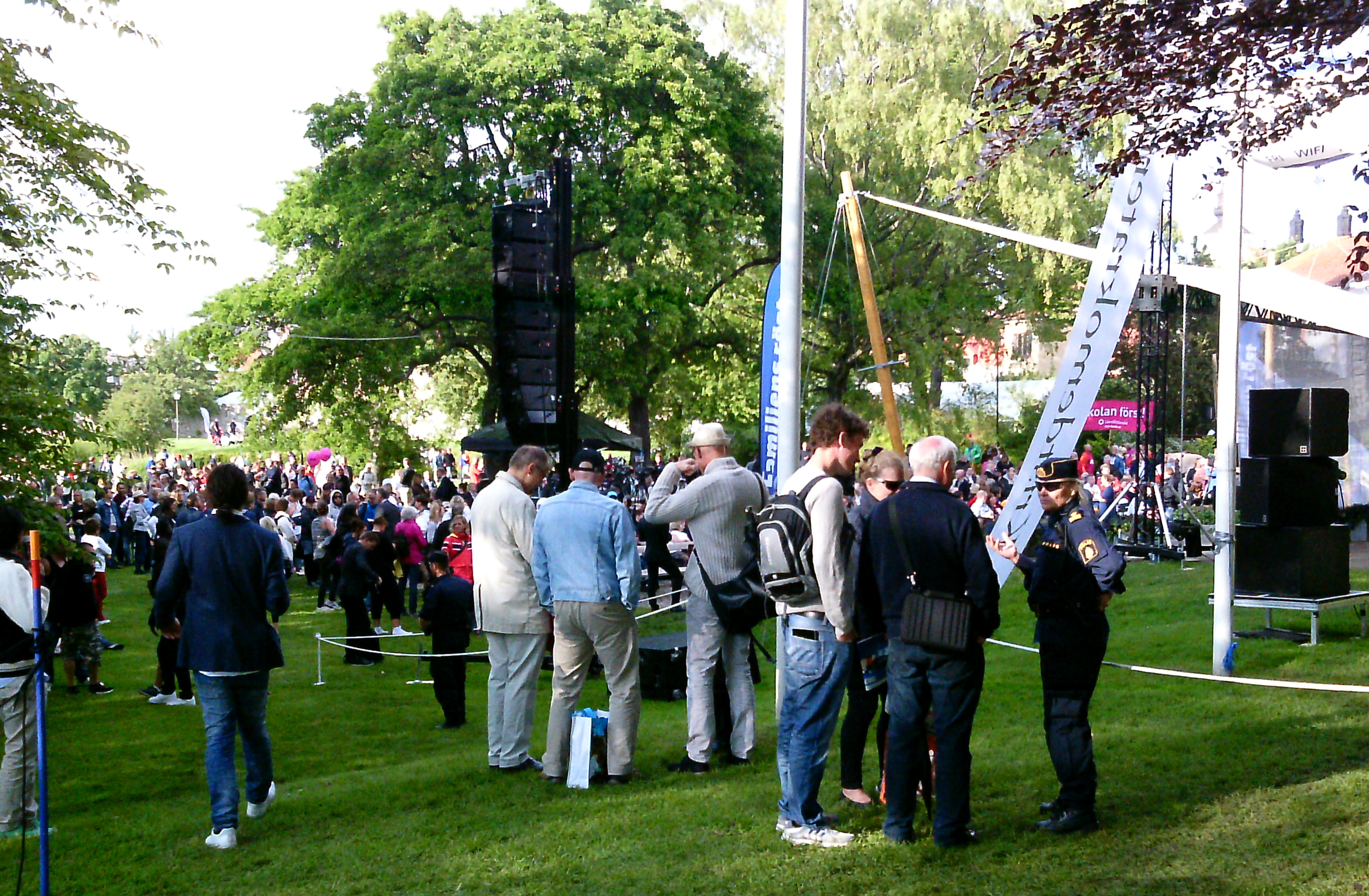 Backstage main area during Almedalen week 2014, Visby, Gotland, Sweden.